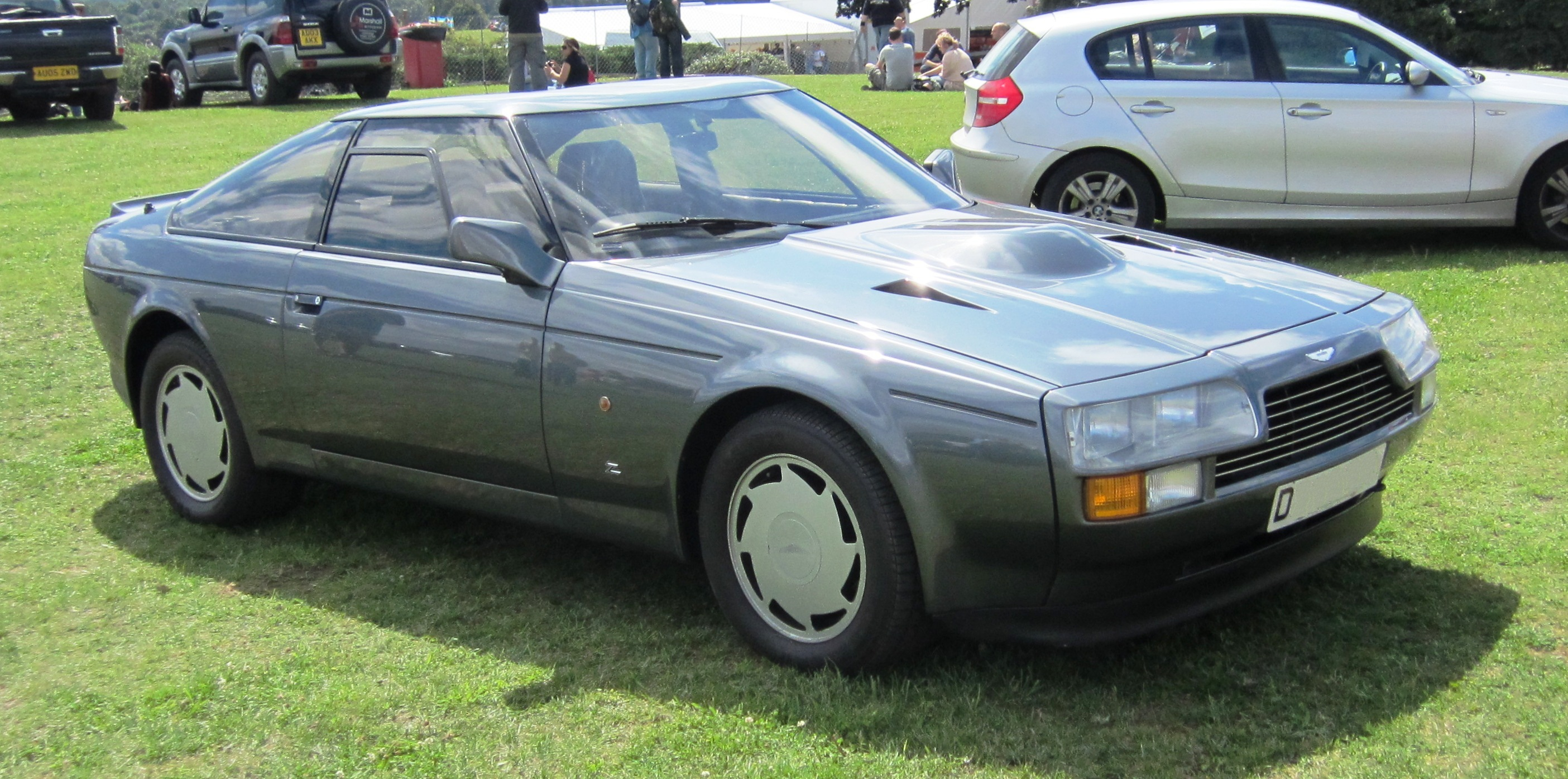 Aston Martin V8 Zagato at Snetterton